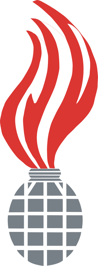 Emblem of the 4th Infantry Division of the Polish Land Forces